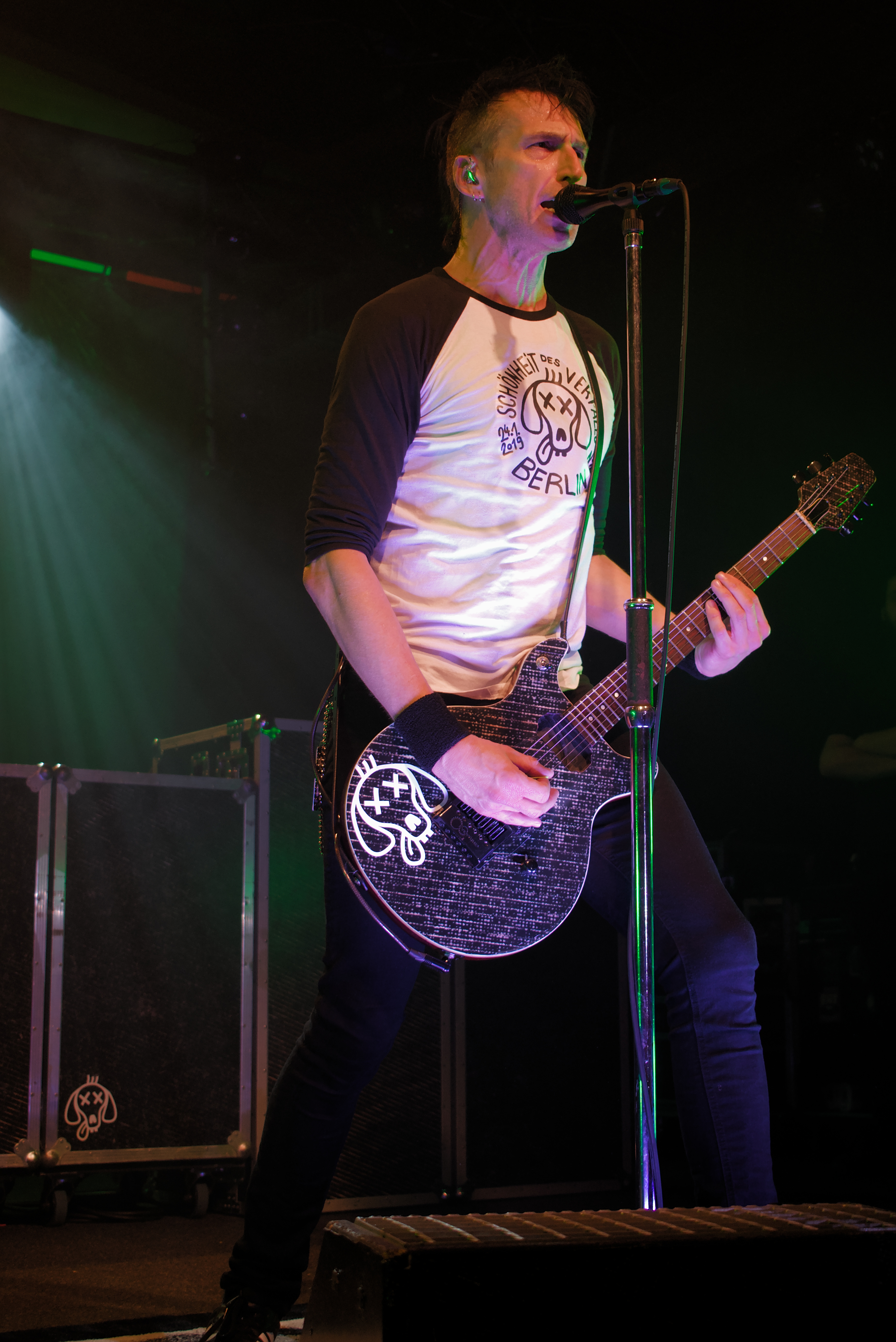 The German Punk rock band Wizo, live in concert at the Astra Kulturhaus, Berlin, Germany. January 24, 2019.